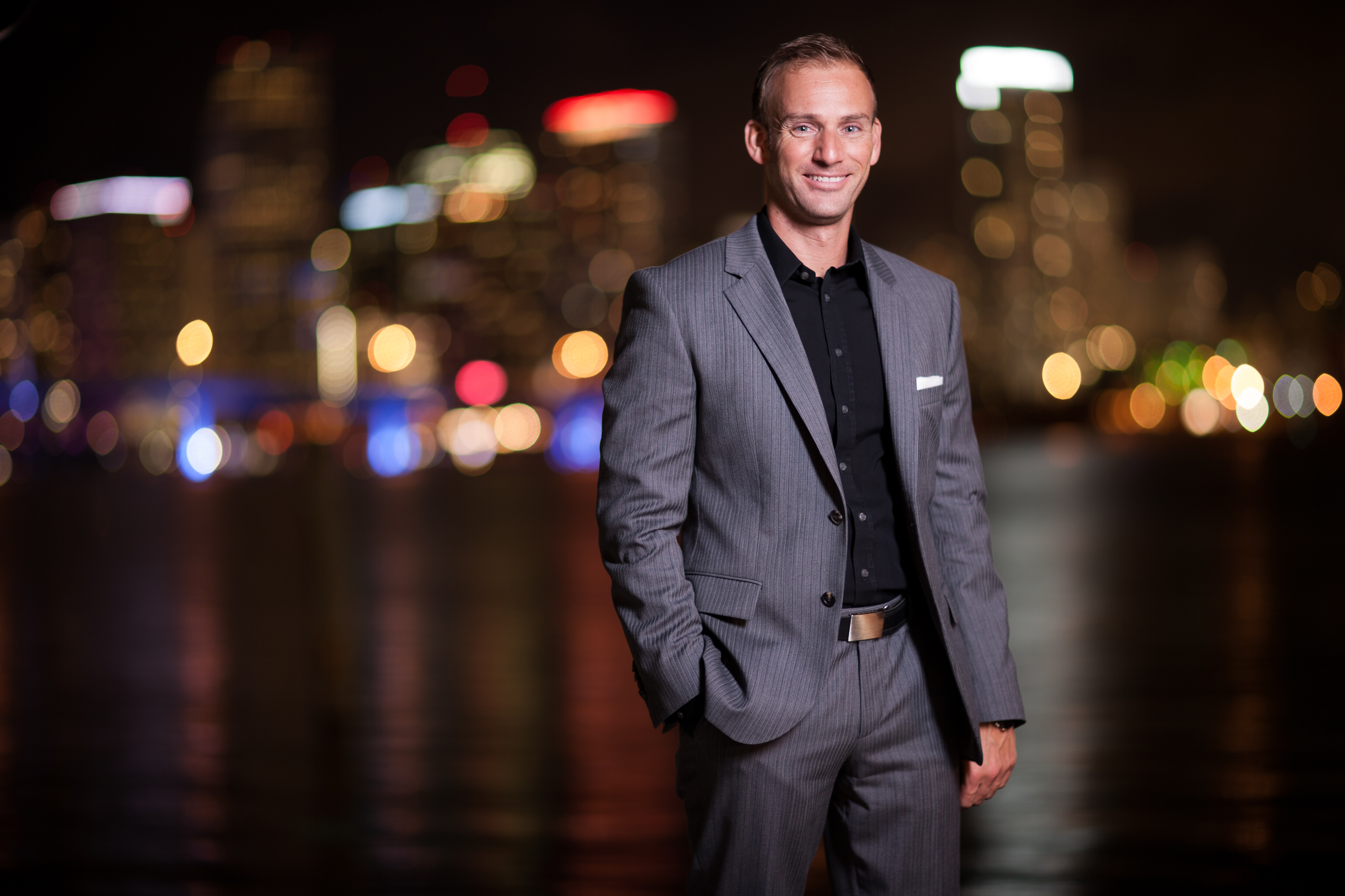 Head Shot